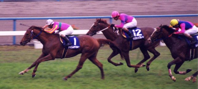 TM Opera O(Left, Kyoto Racecourse)